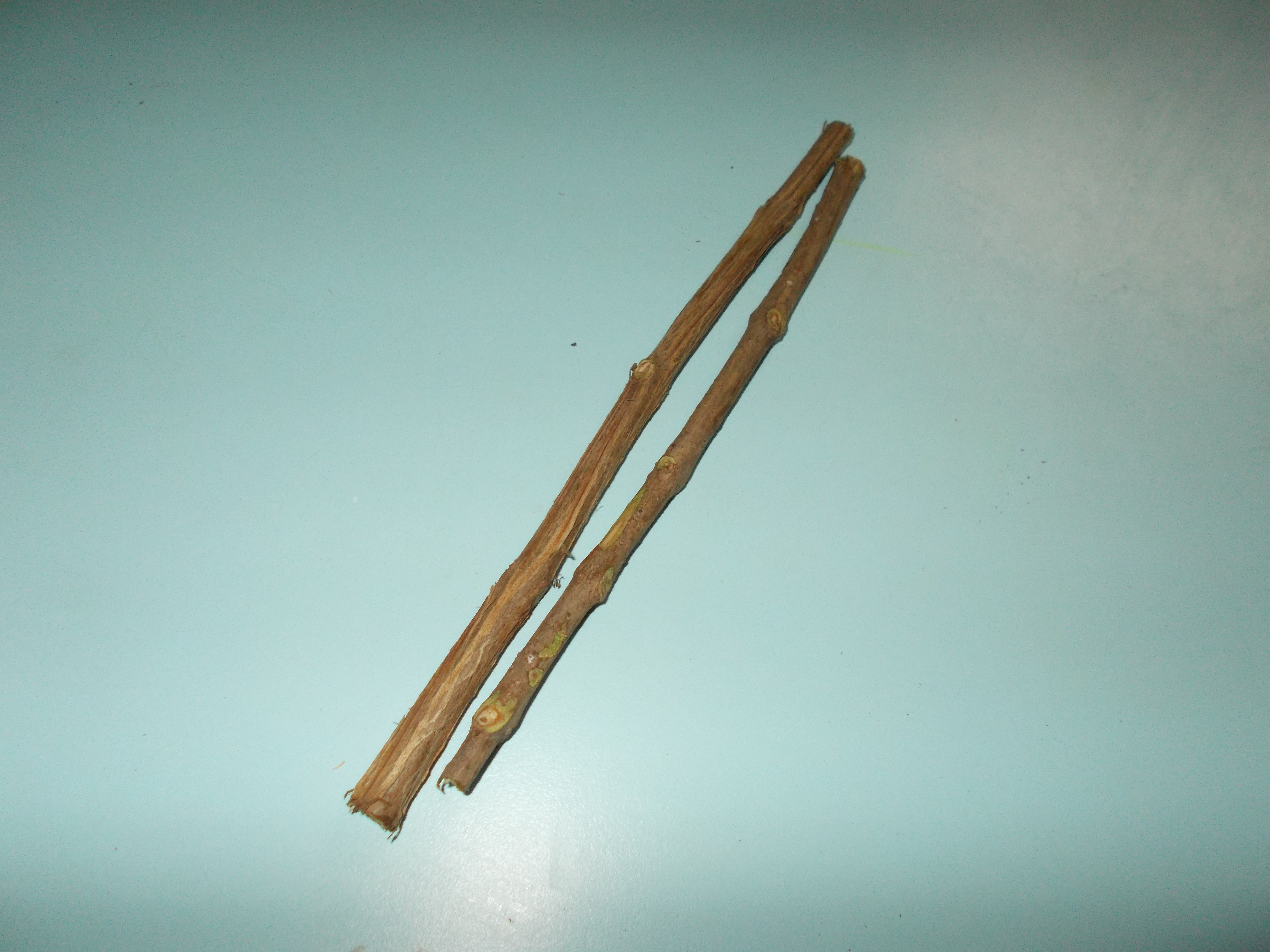 ପିଜୁଳି ଦାନ୍ତକାଠି